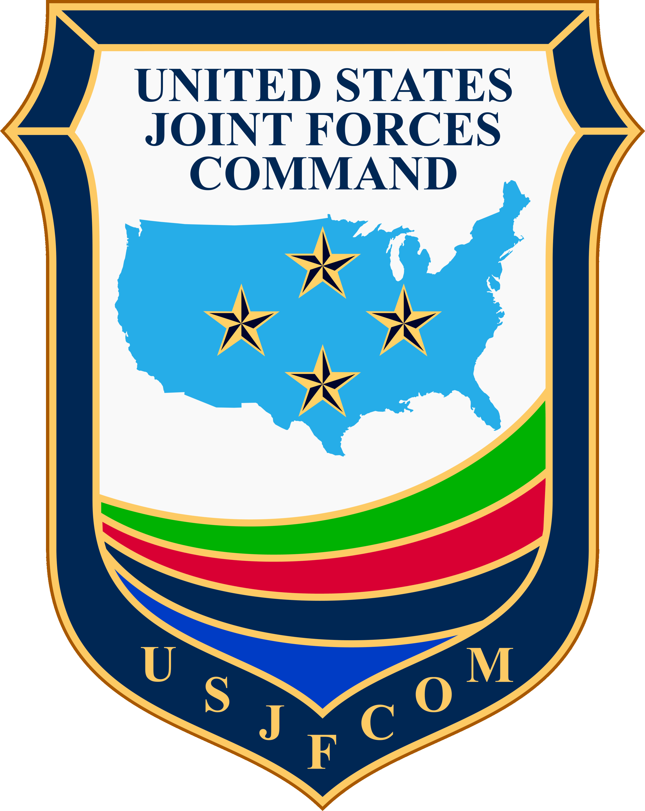 New logo to replace a off-colored logo. United States should be blue not green.